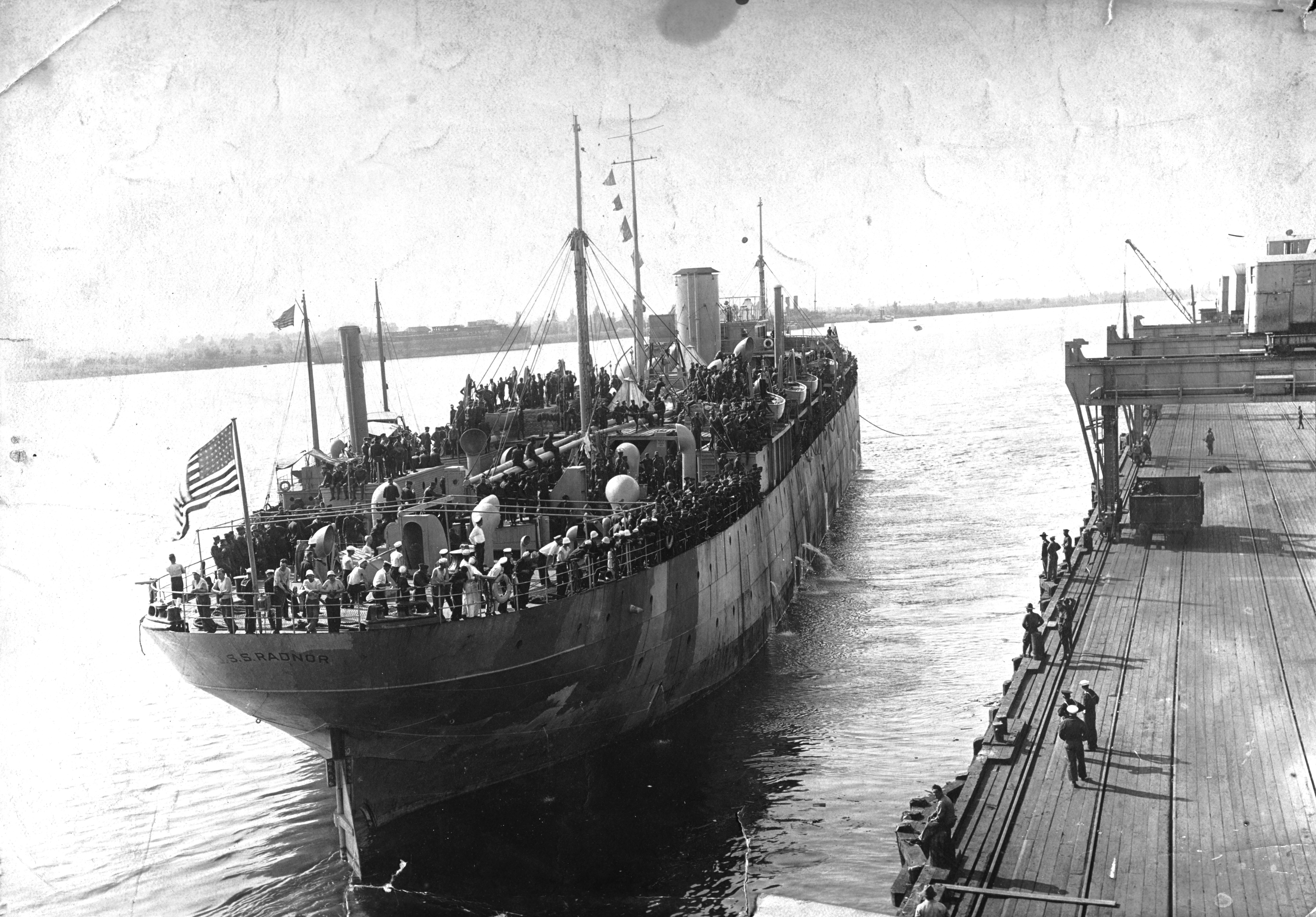 USS Radnor (ID-3023) departing with troops aboard, 1919.